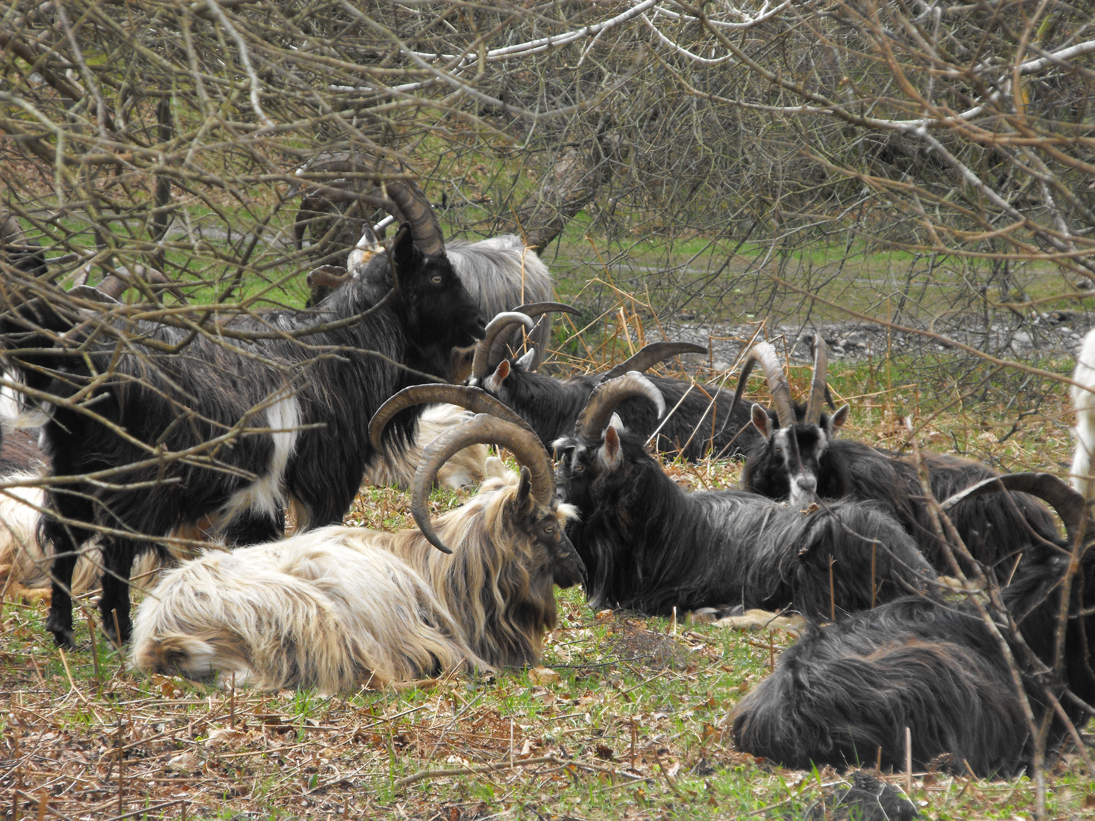 Irish goats around Glendalough - Ireland